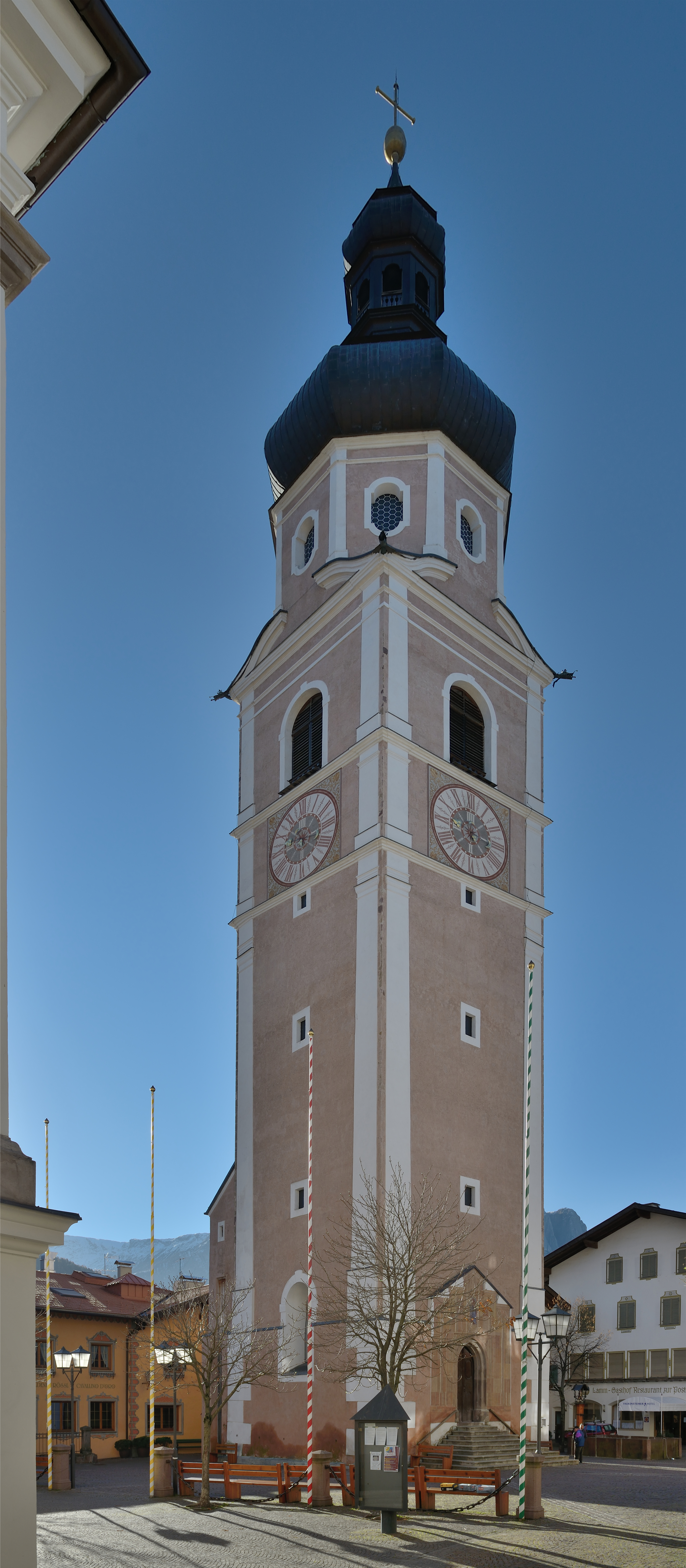 Steeple of parish church in Kastelruth 16th century